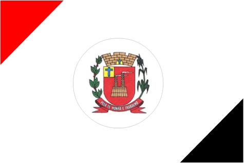 Flag of Santa Gertrudes - SP - Brasil.